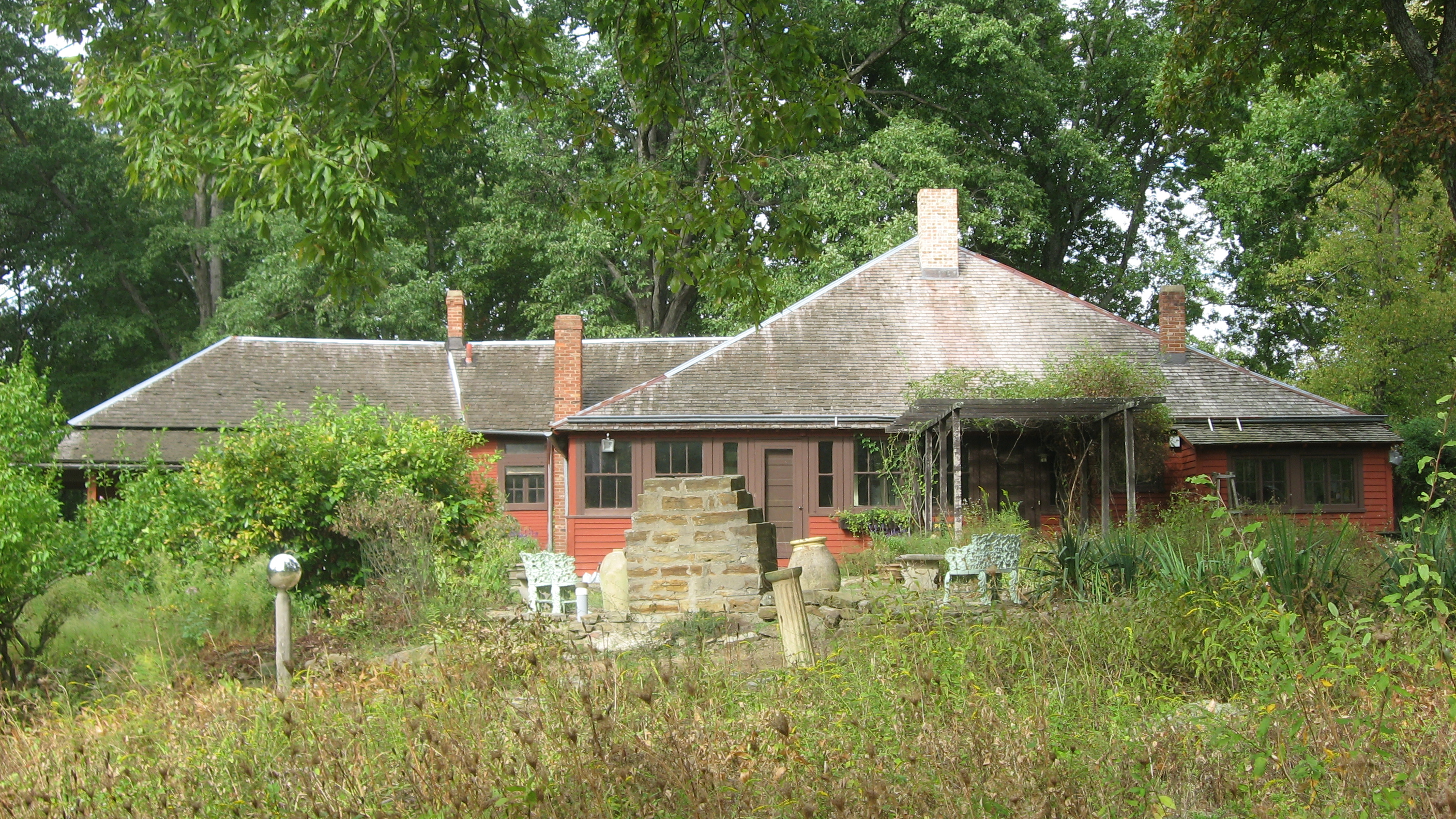 Main entrance to the T.C. Steele House, located on T.C. Steele Road off State Road 46 southwest of Nashville in Washington Township, Brown County, Indiana, United States. Built in 1907, the Steele property is now a historical museum maintained by the state of Indiana, and it is listed on the National Register of Historic Places.